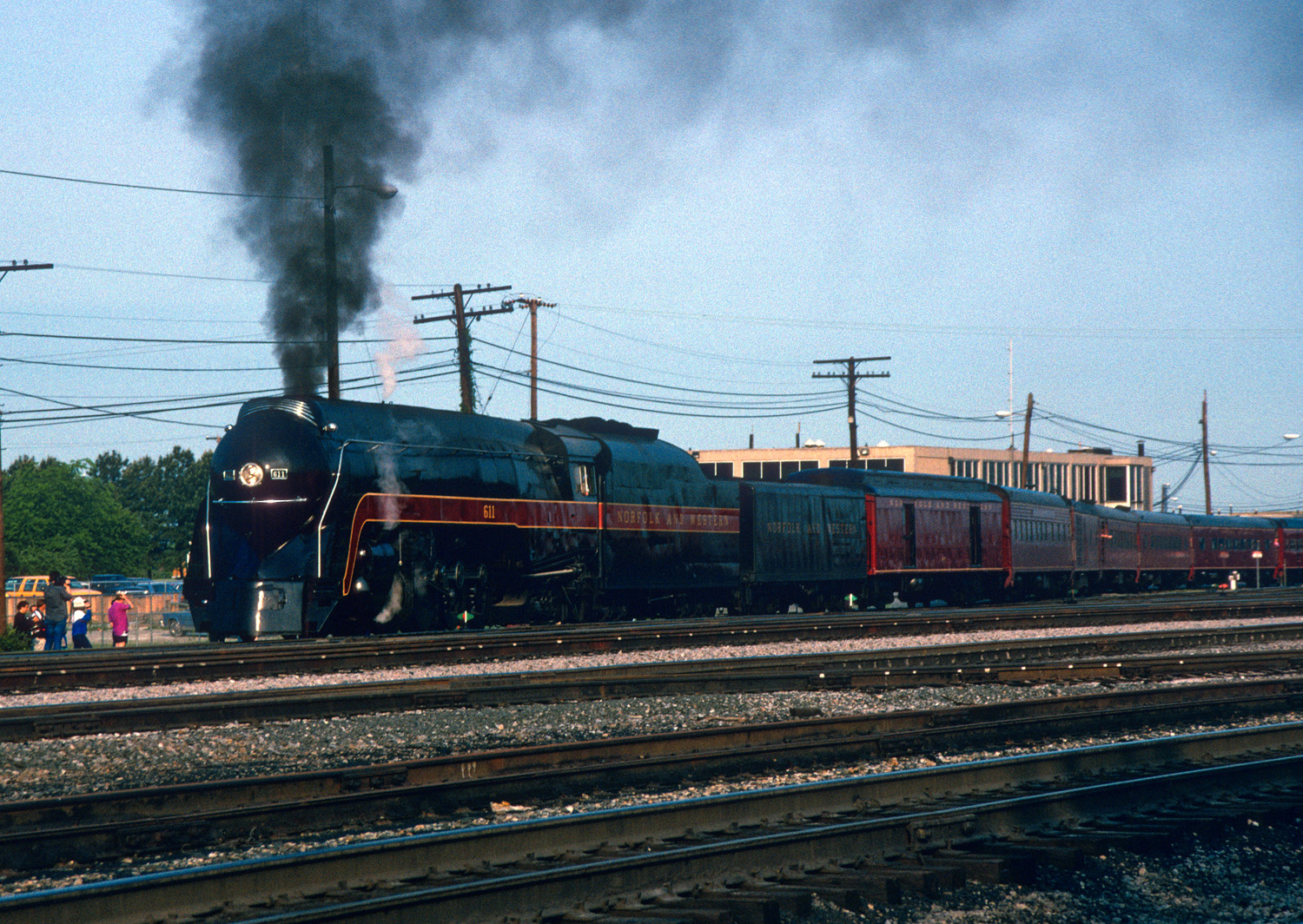 Norfolk & Western Class J #611 leaving Norfolk, VA on a 1993 Excursion